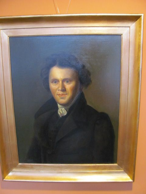 Bernhard Eberhard(1795-1860), 1st Lord Mayor of Hanau, Hessen, Germany and Minister of the interior in the electorate of Hessen